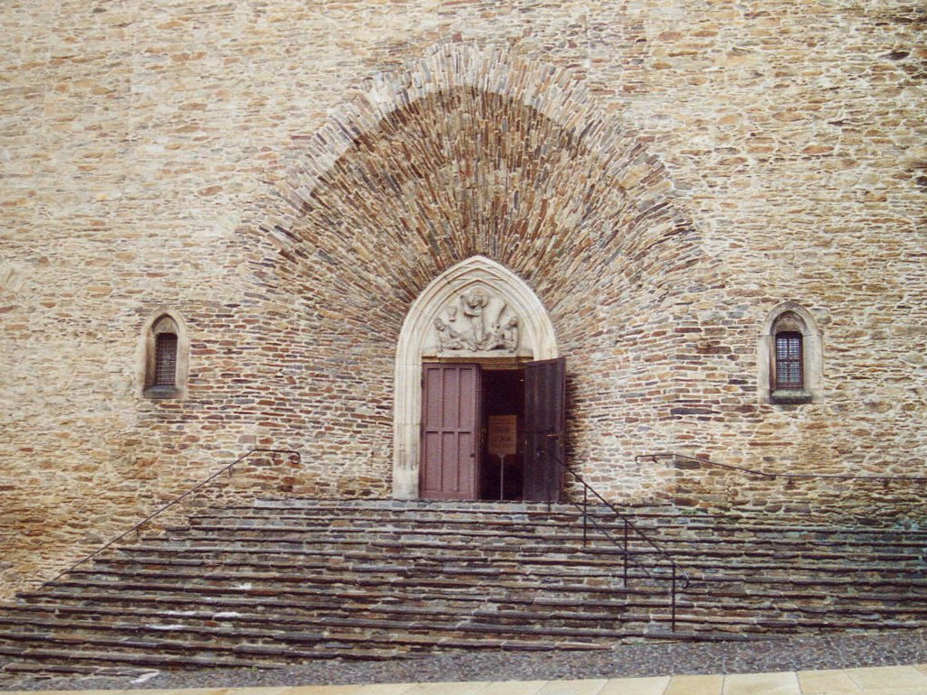 This image shows the portal of St. Annen in Annaberg-Buchholz in the Ore Mountains in Saxony, Germany. The church was built between 1499 and 1525.